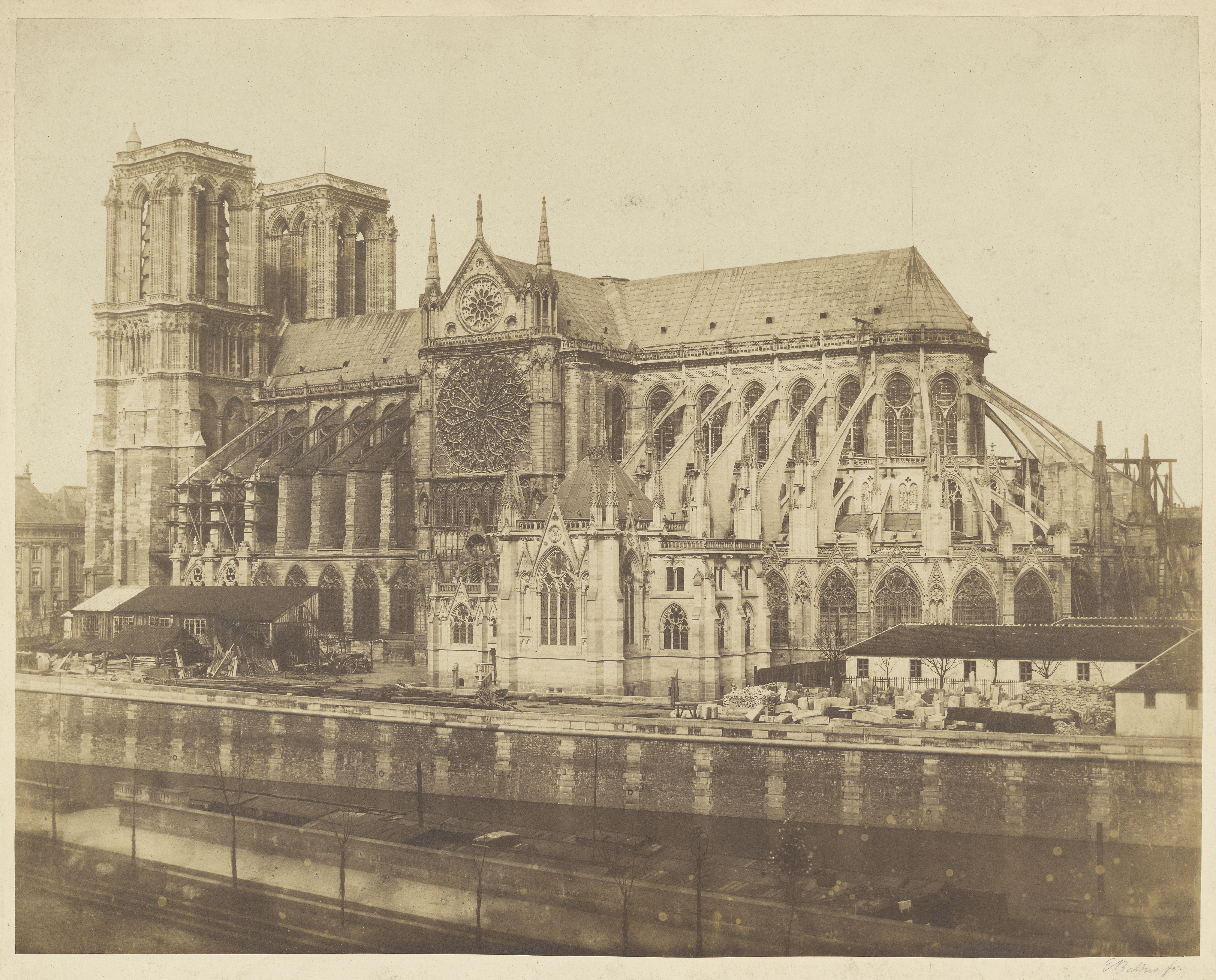 Notre Dame Cathedral, Paris, France.